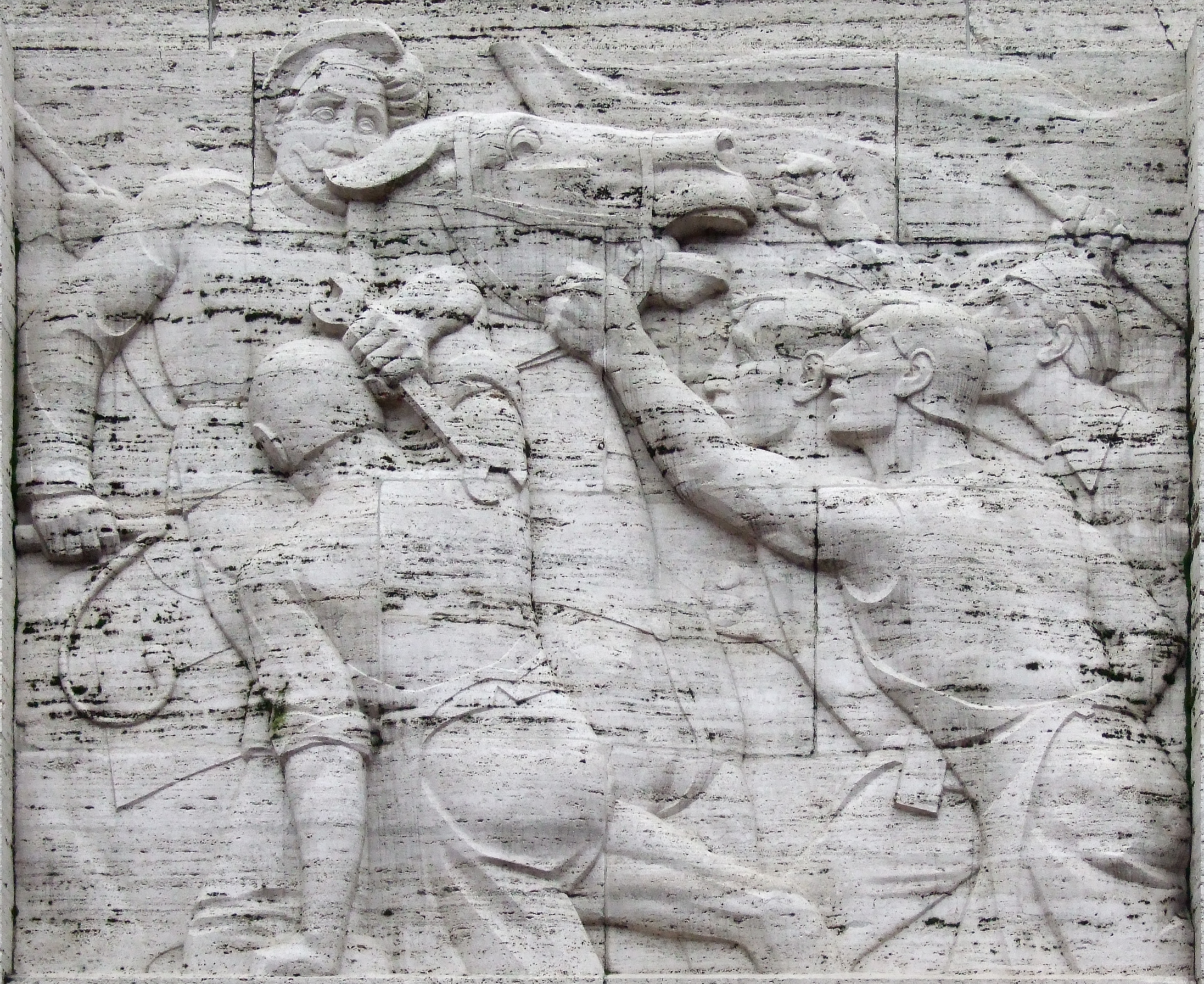 Freedom Monument, Riga, Latvia, "1905" (Revolution) bas-relief, perspective-corrected